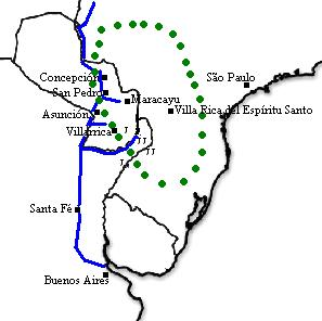 Important location in the history of yerba mate. Green dots marks the limits of the natural distribution of ilex paraguayensis